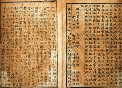 Yeolnyeojeon, also known as Biographies of Exemplary Women